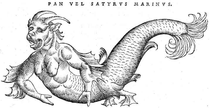 In Gesner's chapter on Tritons, a creature labeled "Sea-Pan or Sea-Satyr" (Latin: Pan vel Satyrus marina); followed by text stating "This is the image of an ichthyocentaur or sea-demon (Latin: Iconem hanc ichthyocentauri, sive daemonis marini). The creature has a goat-like head with two-horns sitting on a human female-like torso with pendulous breast, human like arms but with fleshy pincer-like hands, and small fishlike fins where hind legs might be. It does not have the horse-forelegs of typical ichthyocentaur. Cf. File:Gesner - Fischbuch - S. 106 v.jpg in a German edition, colorized.